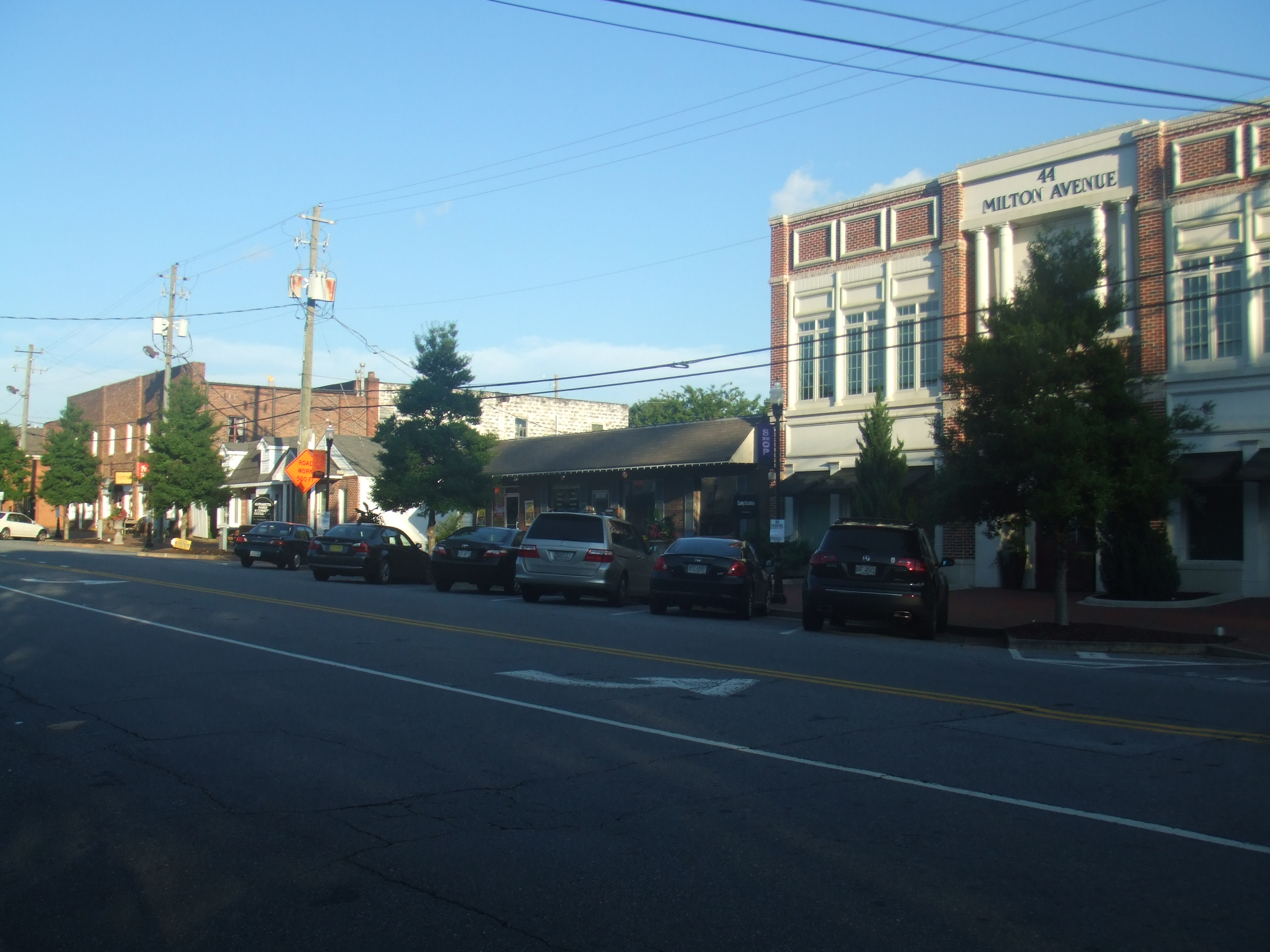 Downtown Alpharetta, Georgia